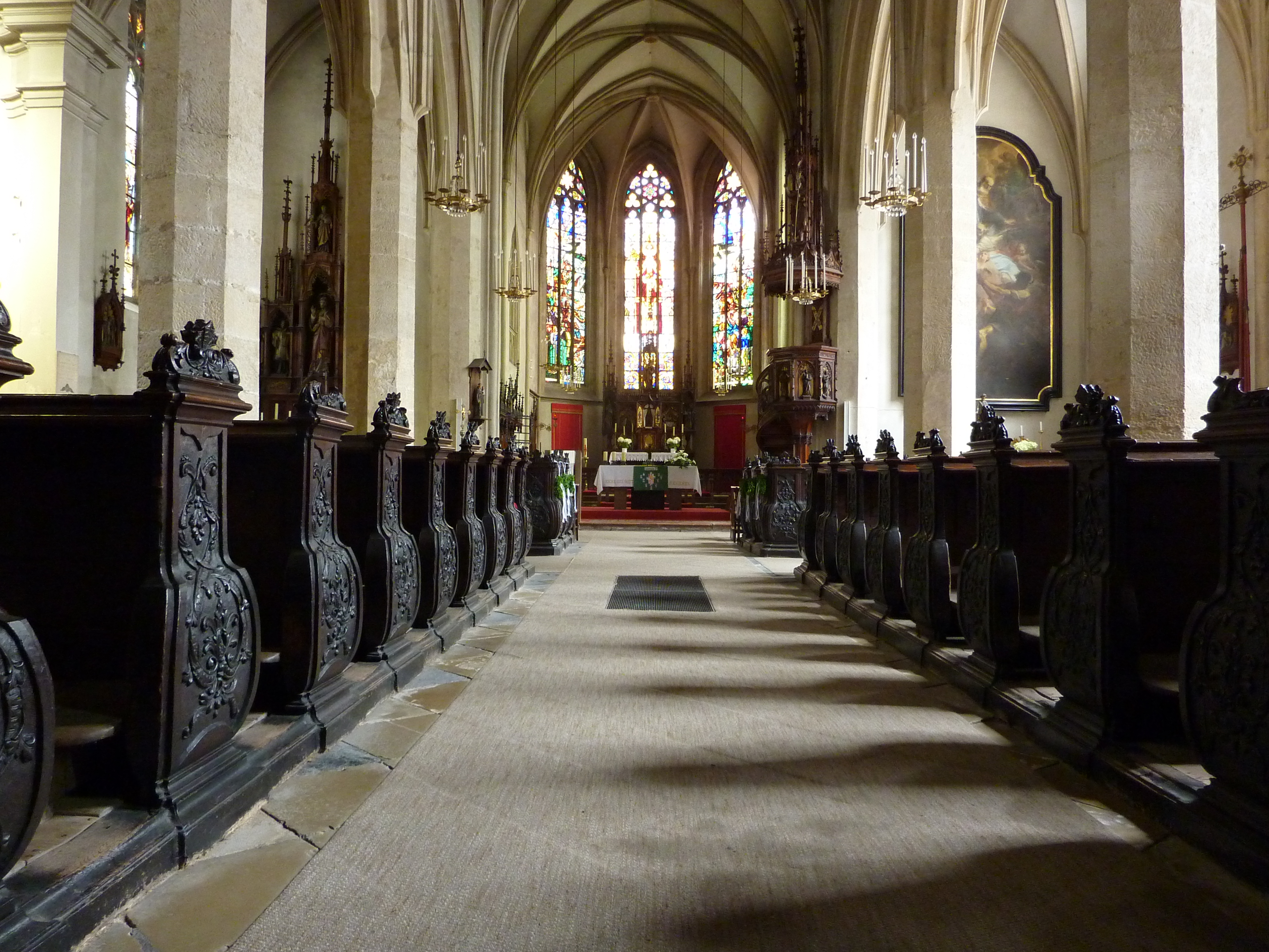 Church in Stein (Krems an der Donau) in Lower Austria